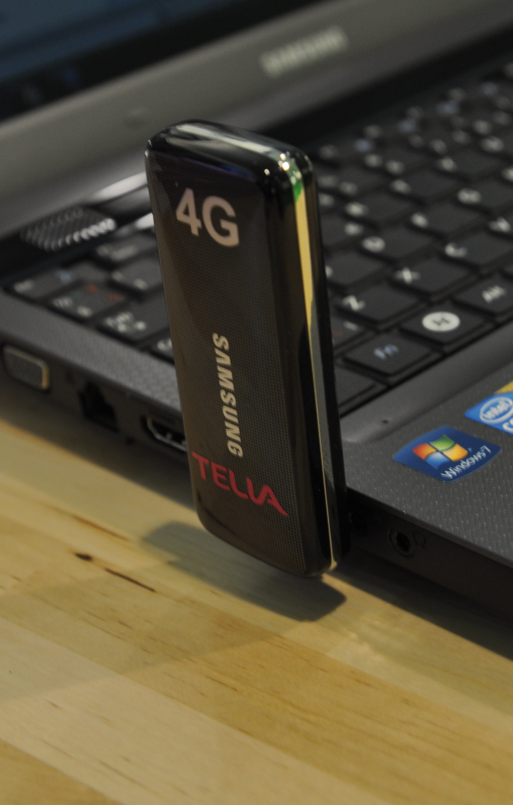 4G LTE single mode modem by Samsung, operating in the first commercial 4G network by Telia